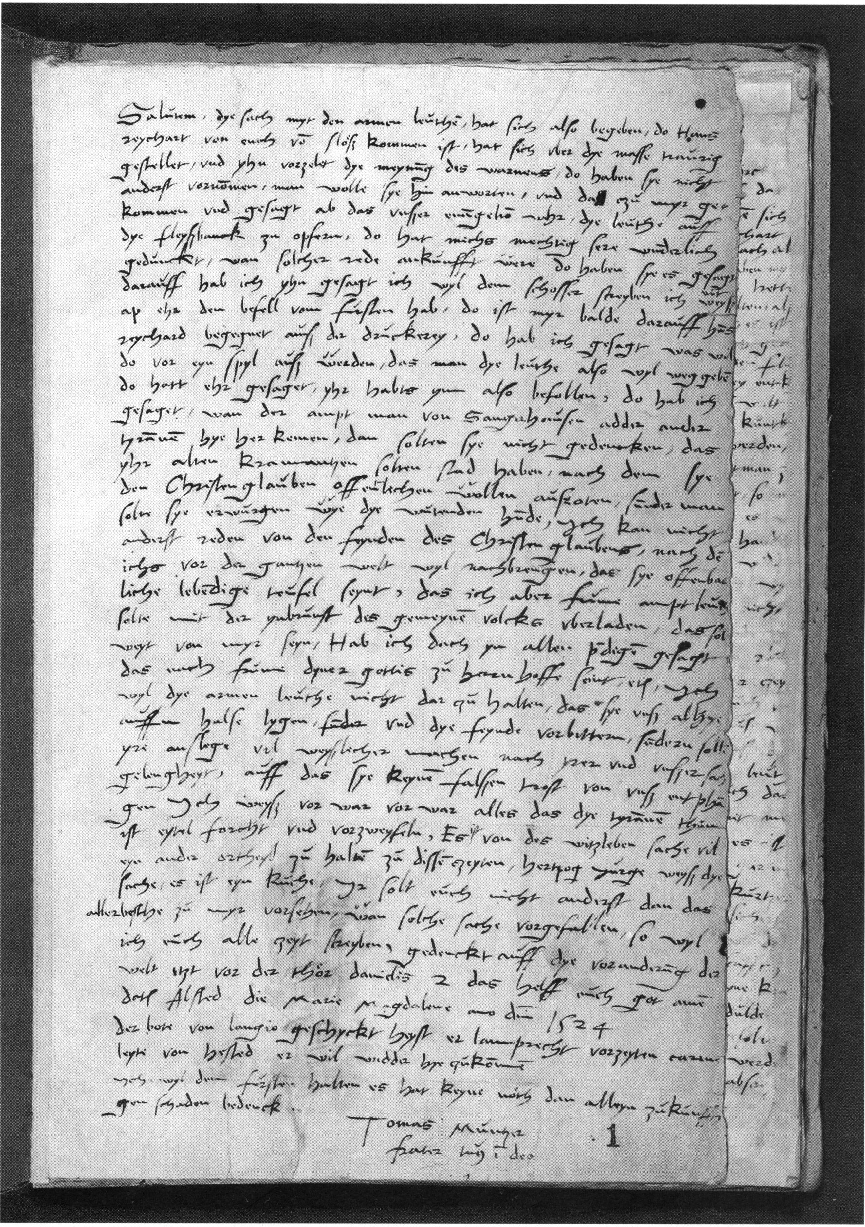 An autograph letter of Thomas Müntzer to Hans Zeiß. Staatsarchiv Weimar.